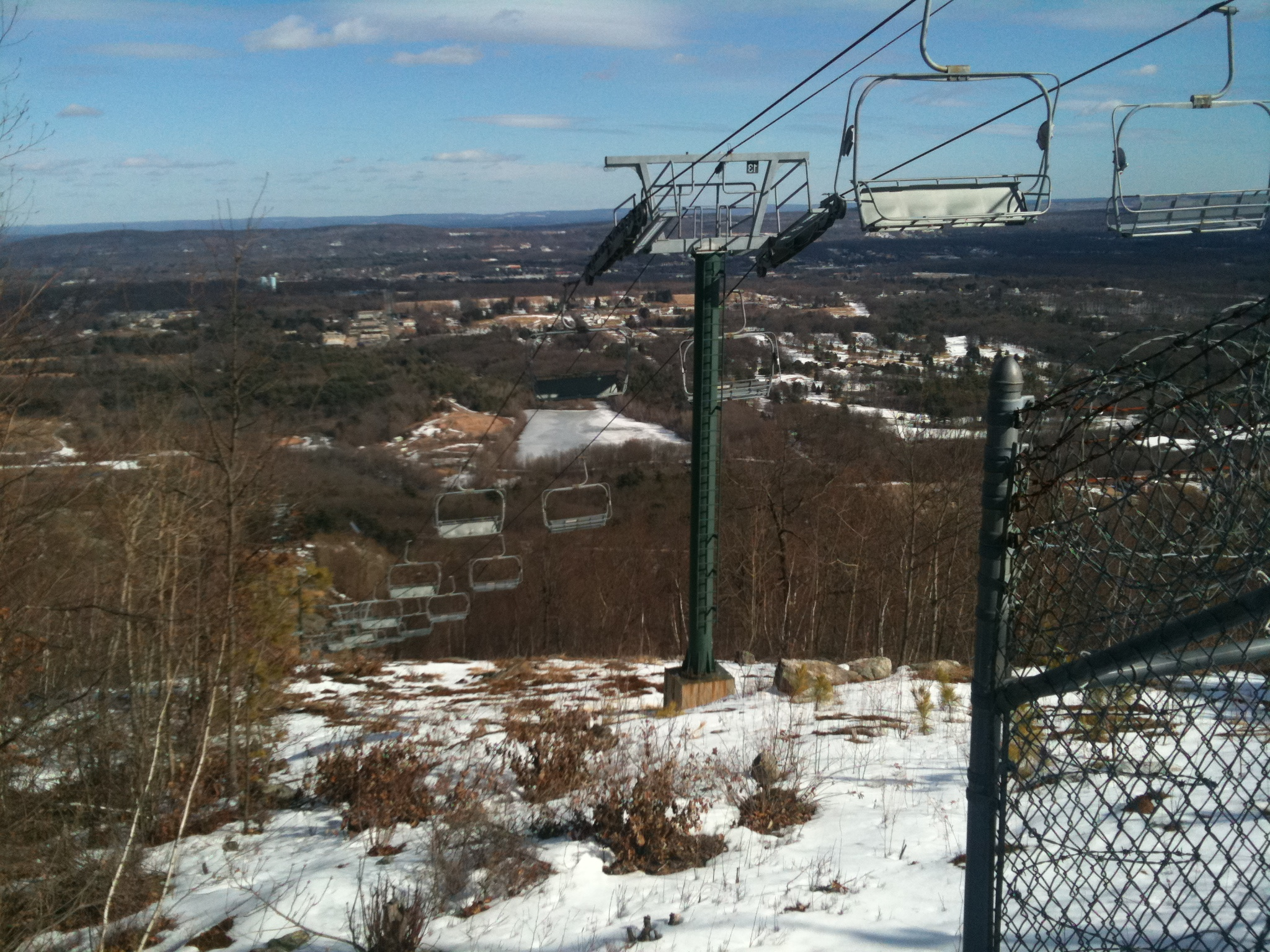 Lake Compounce SkyRide Gondola seats from the Tunxis Trail Compounce Ridge side trail in winter.